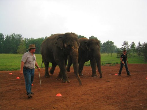 Two elephants being prepared for filming for Evan Almighty, starring Steve Carell